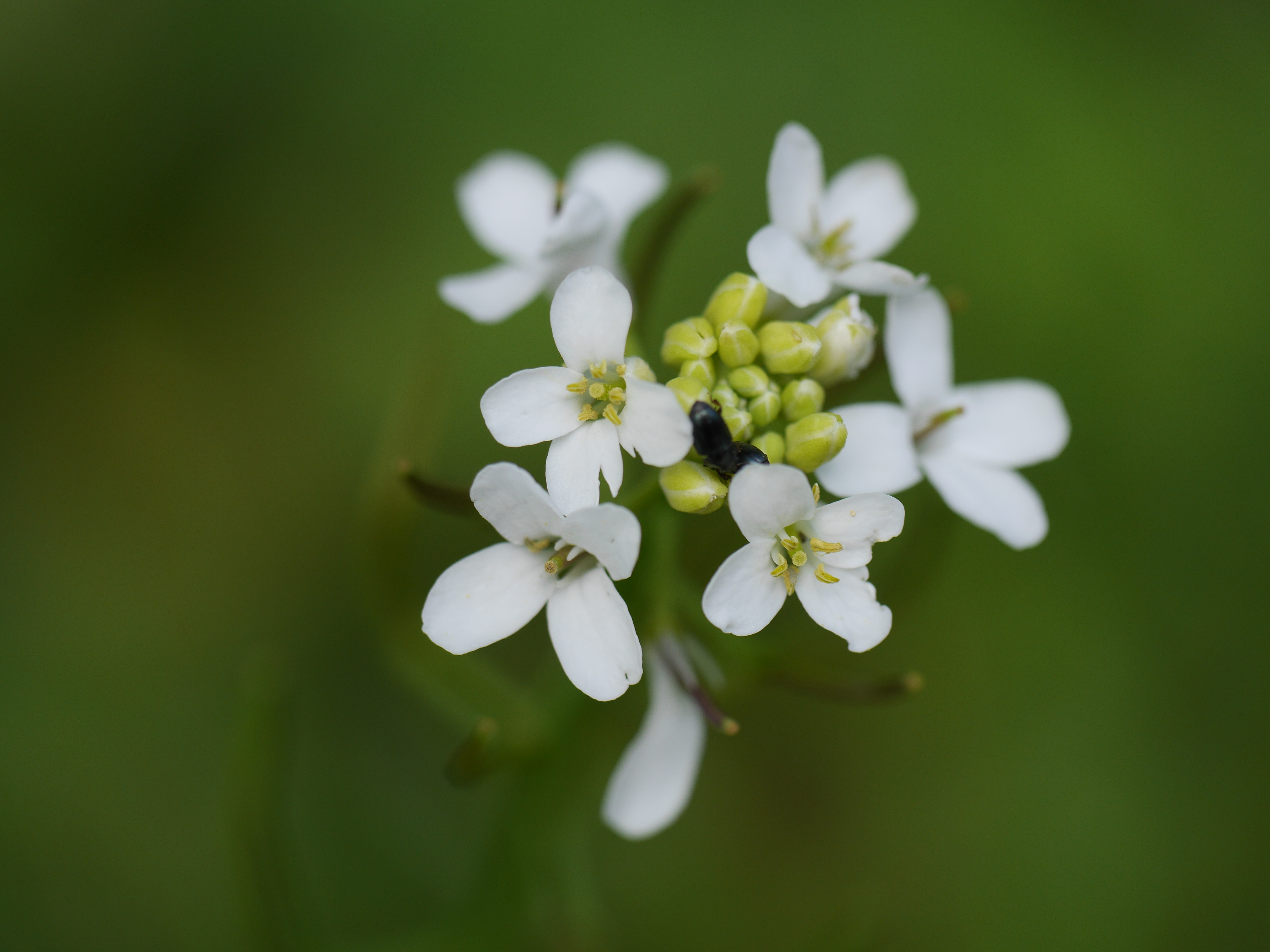 This photo was taken with Panasonic Lumix DMC-GH3 camera, thanks to Panasonic.You can see all photographs in category: Taken with Panasonic Lumix DMC-GH3.